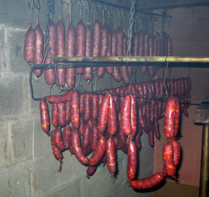 Cebolas. Galicia (Spain)